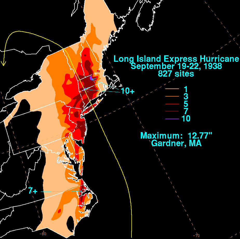 Storm total rainfall map of the Long Island Express hurricane during September 1938.